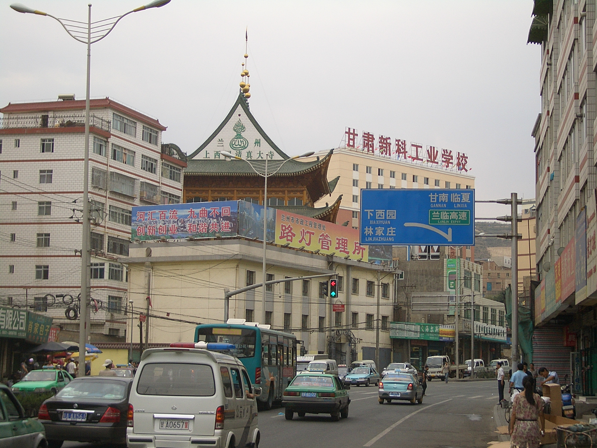 In Lanzhou's Qilihe District, near southern bus station. (This is near to where the expressway to Lintao starts )